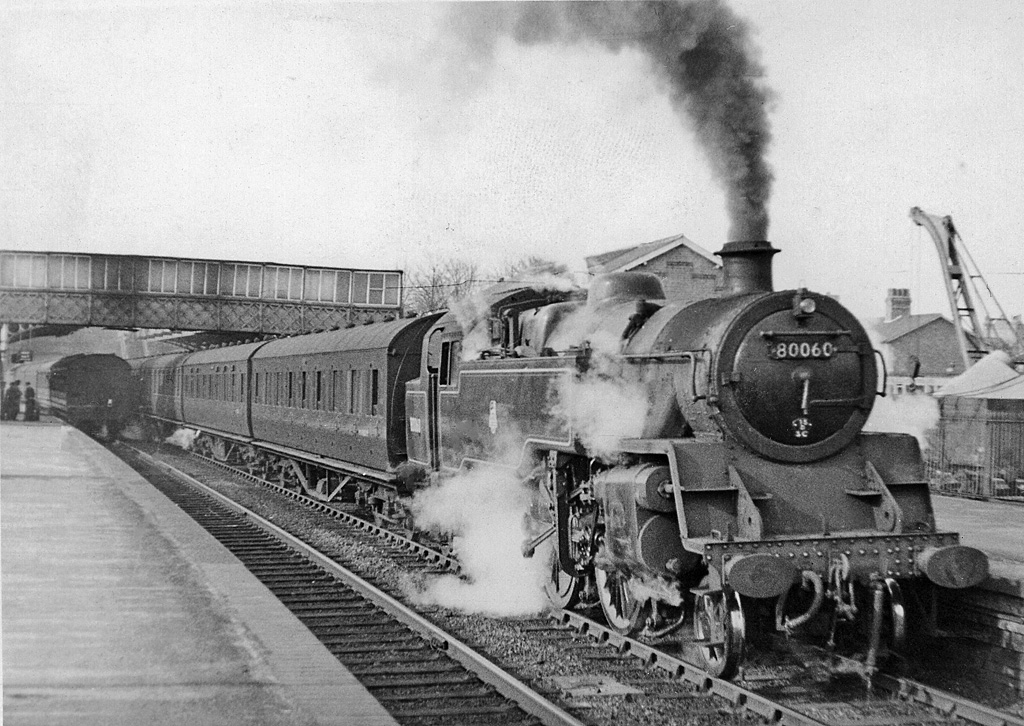 Elstree Station, with an Up local train. View northward, towards Bedford and the North; ex-Midland London St Pancras - Bedford - Leicester etc. main line. The Up local train, probably from Bedford, is headed by a quite new BR Standard 4MT 2-6-4T No. 80060. A Down local is at the Down Slow platform. After electrification of the local services, the station was called 'Elstree & Borehamwood' between 6/5/74 and 5/5/88.